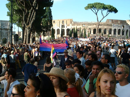 The one-million-people Rome World Pride in 2000, near the Colosseum. Picture by Stefano Bolognini.